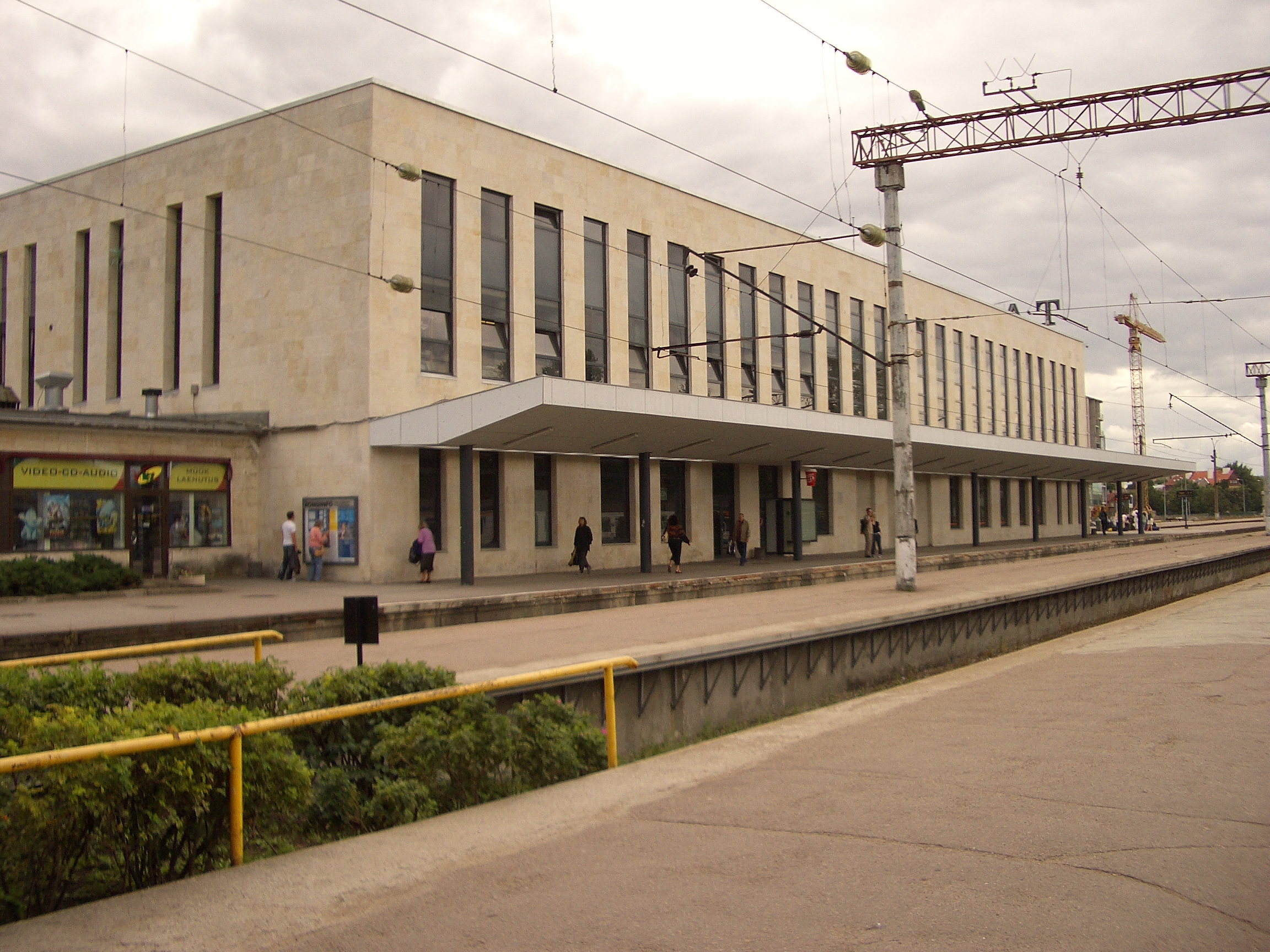 Baltia Station in Tallinn (main railway station in Estonia)